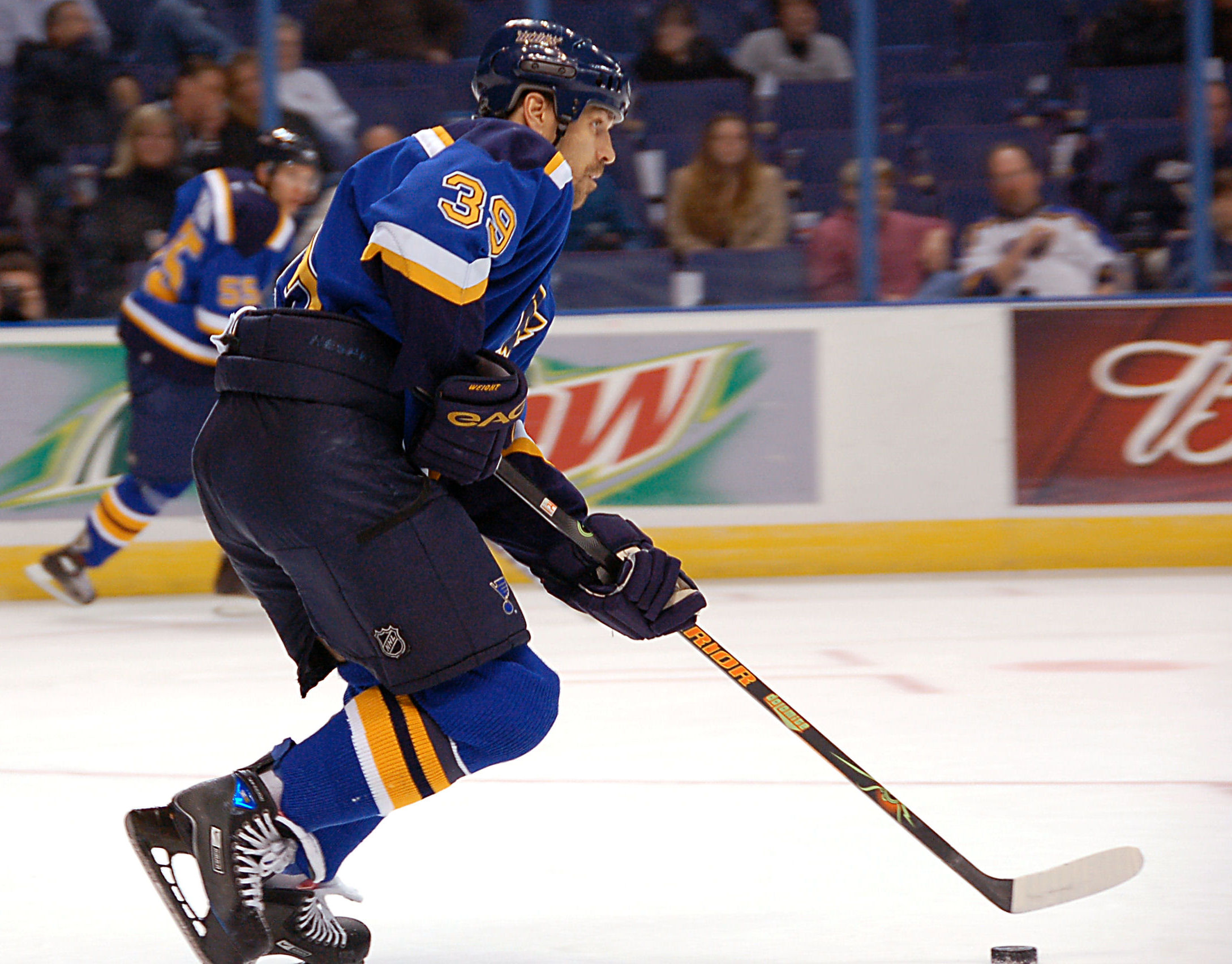 Doug Weight of St. Louis Blues, game vs. San Jose Sharks, November 28, 2006